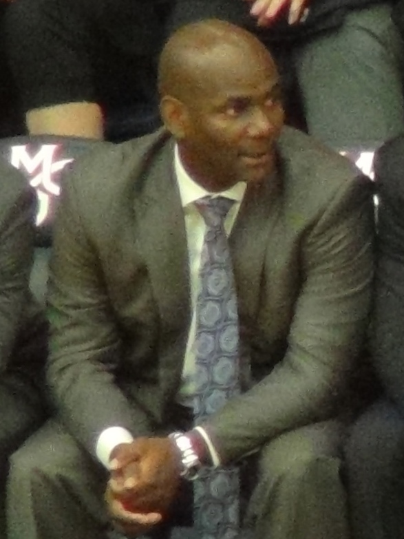 Saint Mary's College of California men's basketball assistant coach David Carter on the bench during the game against San Jose State on November 22, 2016.